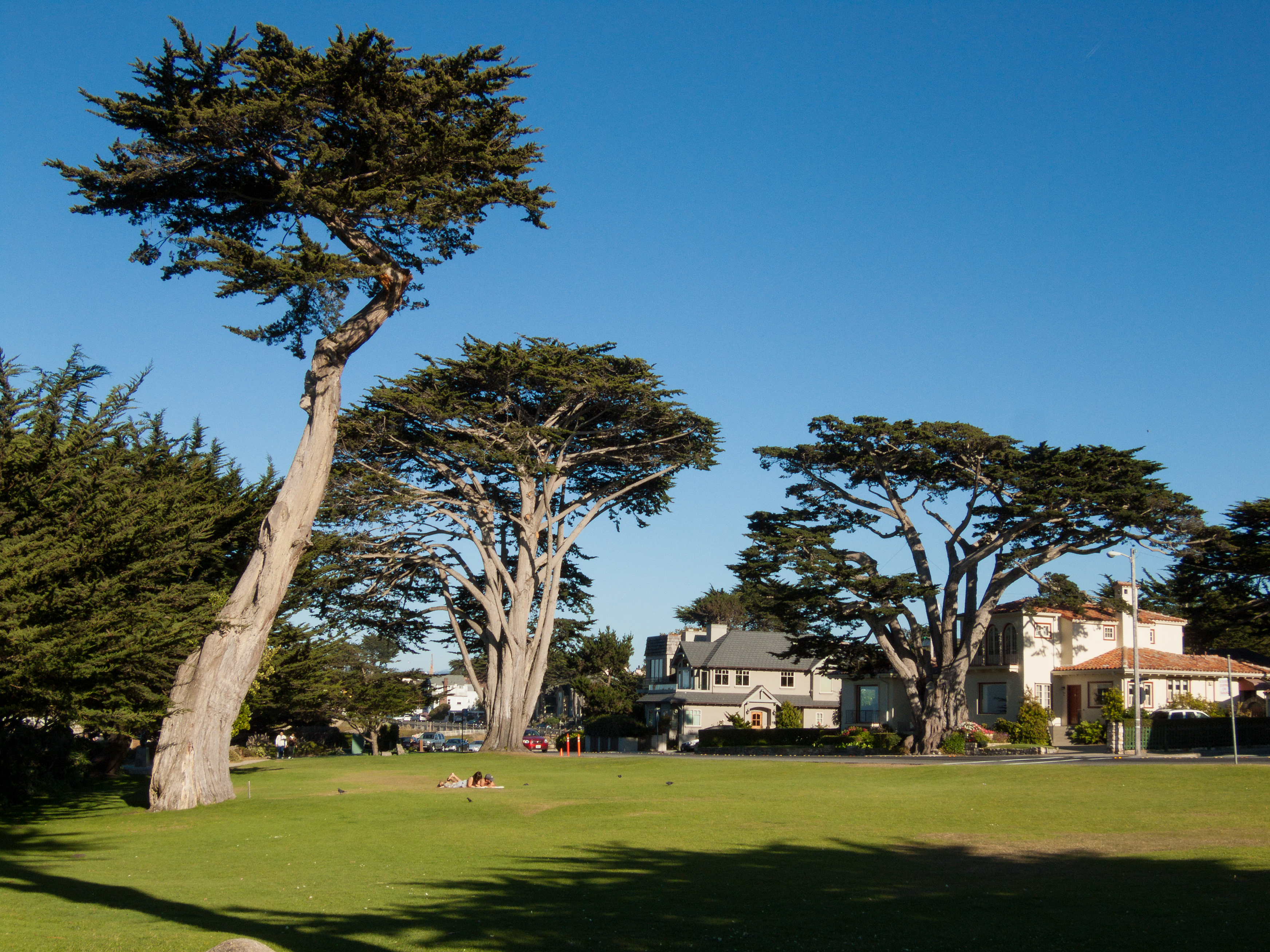 Cypress trees tower over Berwick Park in the city of Pacific Grove on the Monterey Peninsula in California's Central Coast.